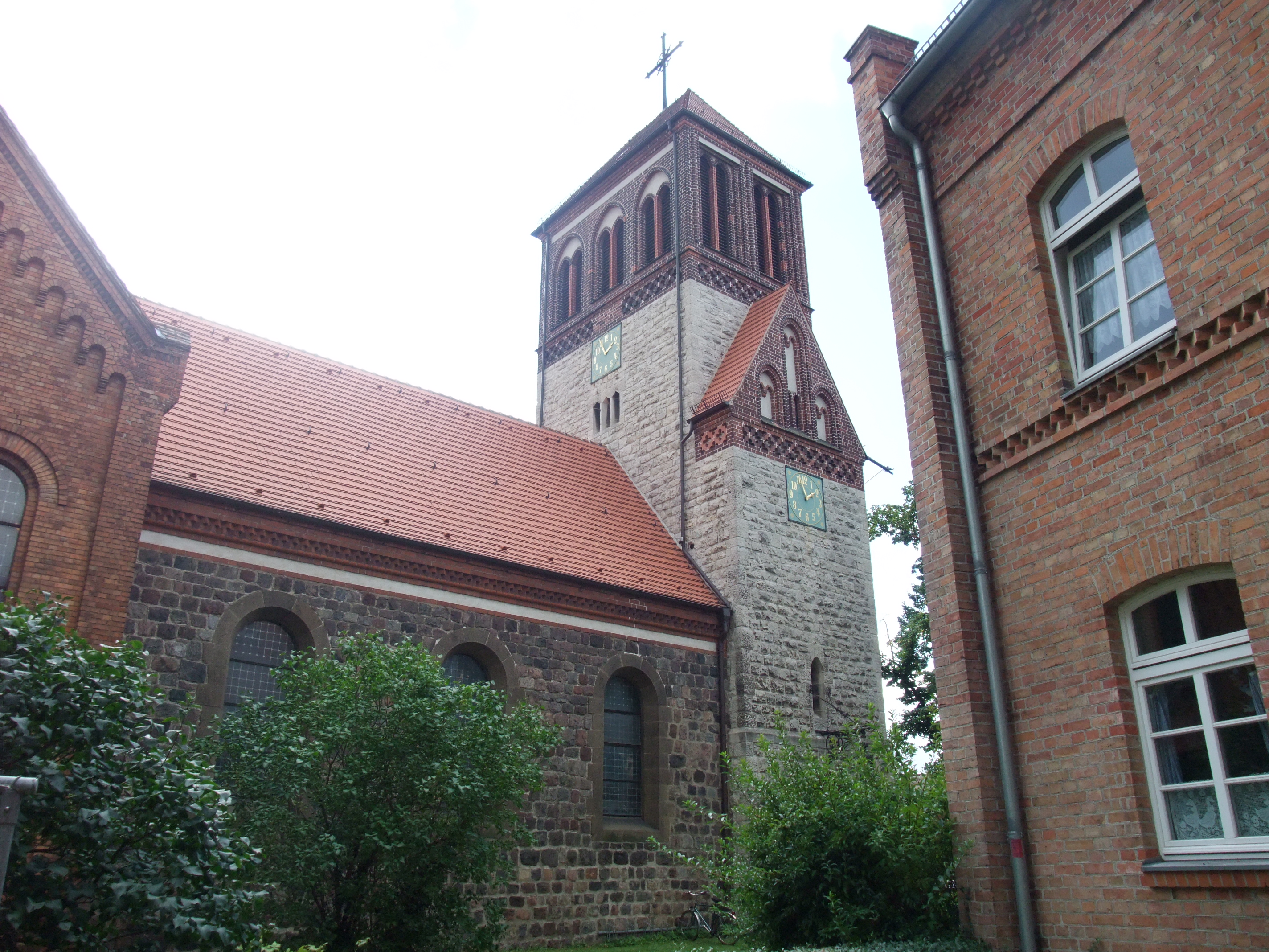 Church of Berlin-Rosenthal, Germany